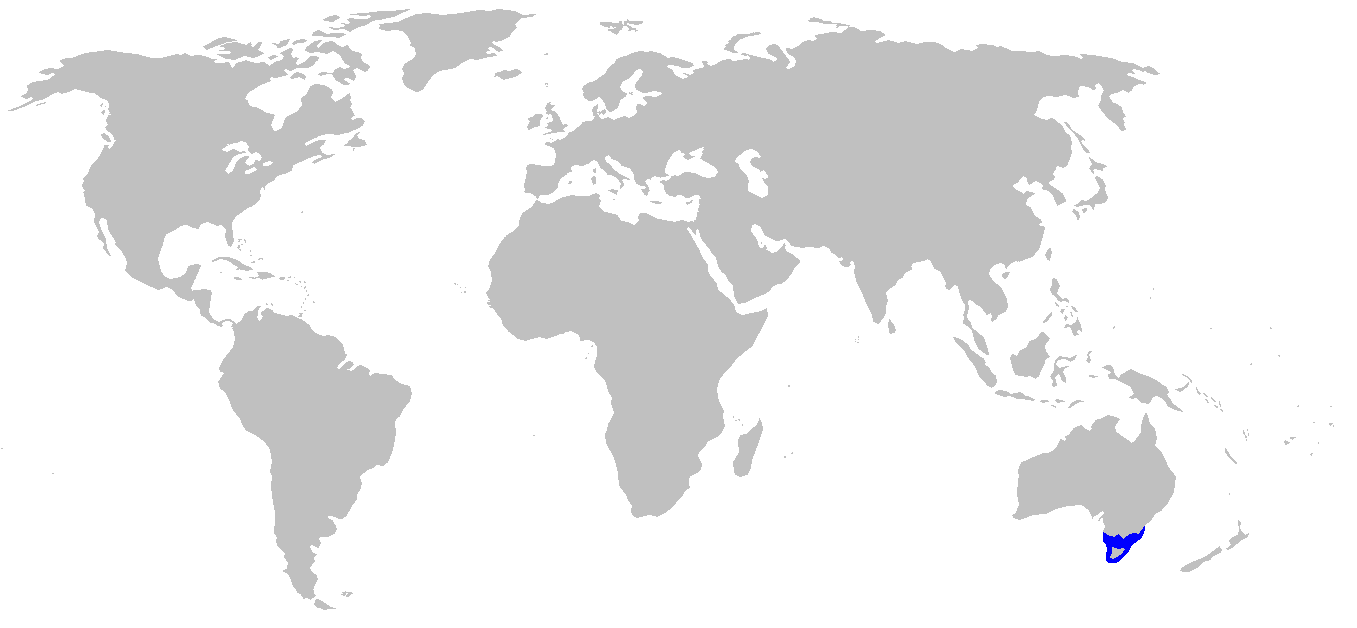 Range of the crossback stingaree (Urolophus cruciatus), based on Sharks and Rays of Australia by Last and Stevens (2009).